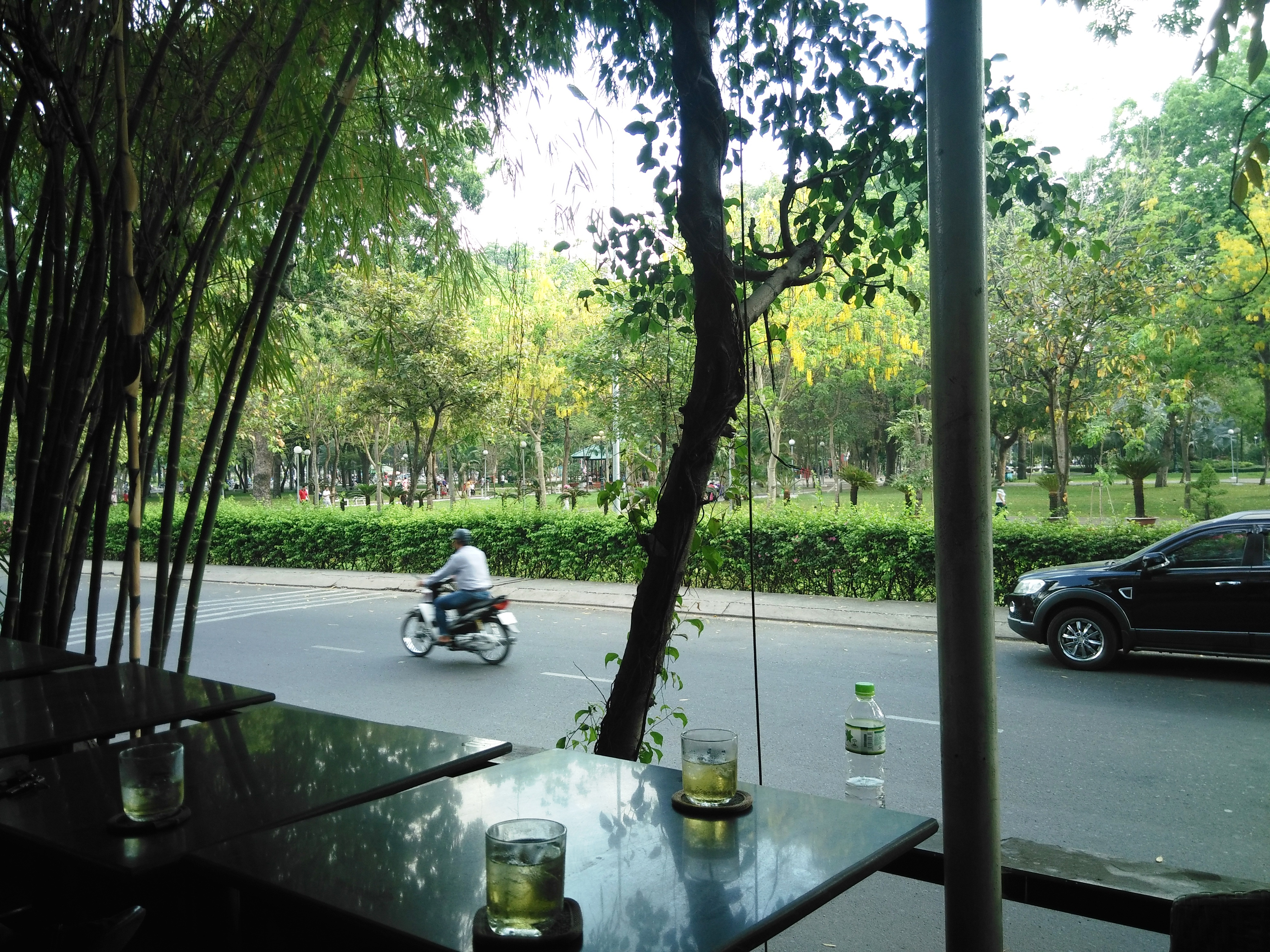 Gia Định park